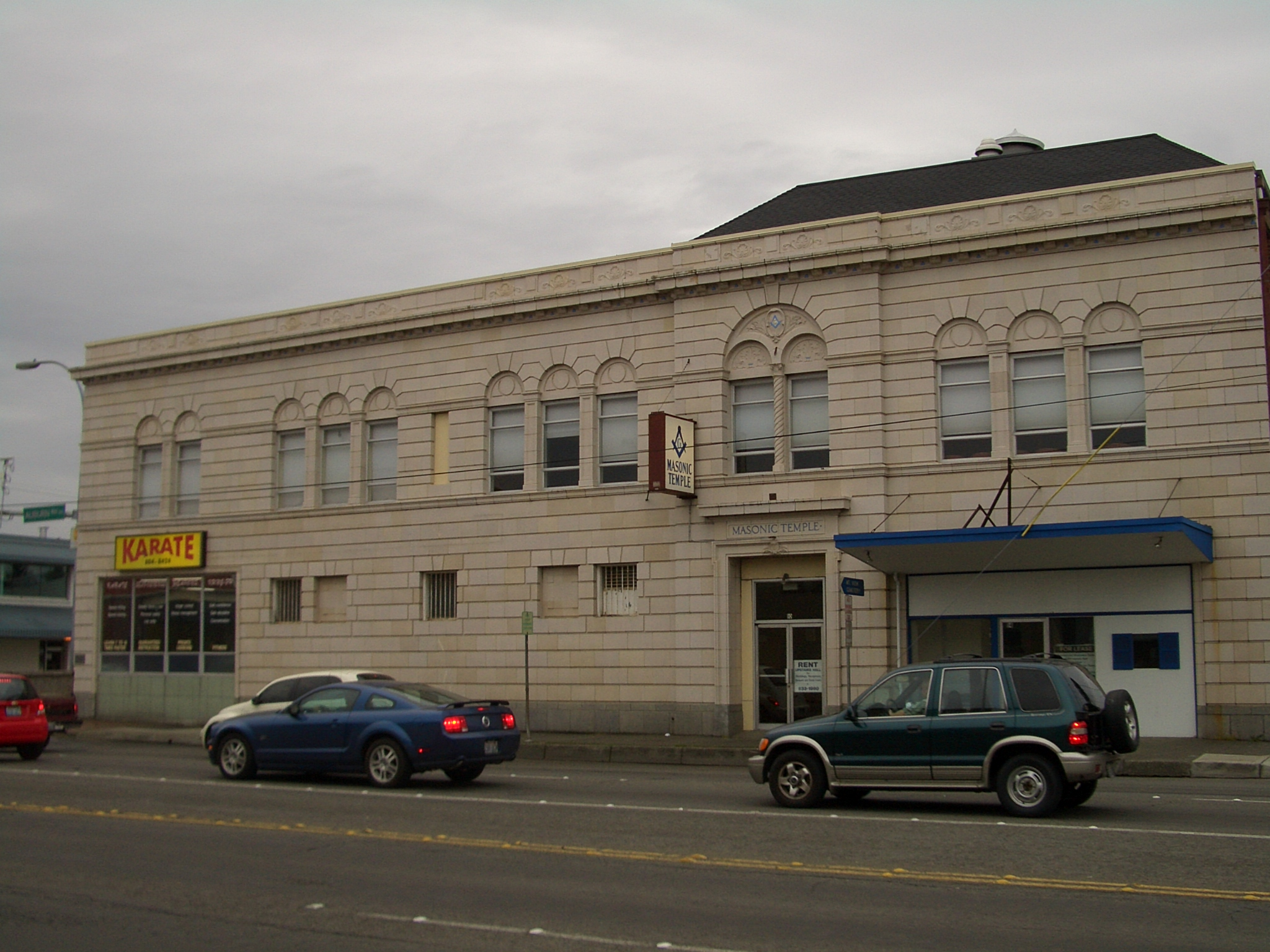 Masonic temple in Auburn, WA.